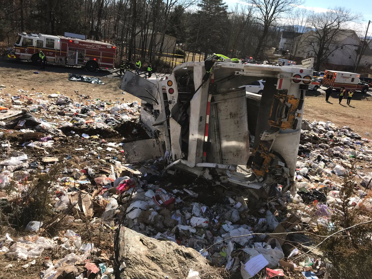 State of the garbage truck after Amtrak Congressional Special Train 923 crashed into it.